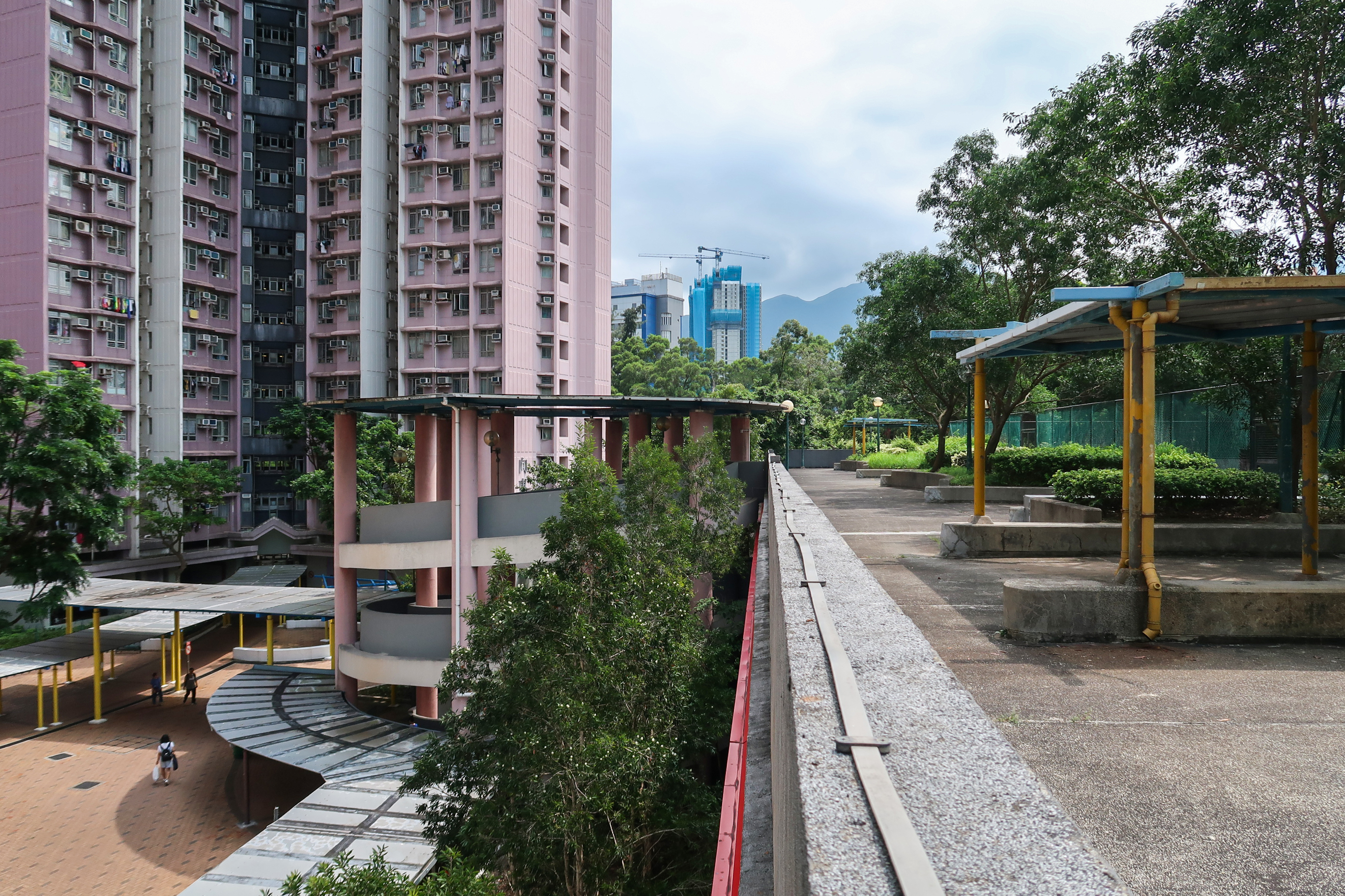 Fu Tung Estate and Yu Tung Court Carpark rooftop garden